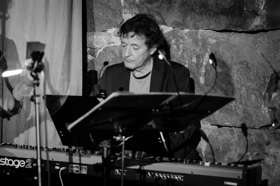 Dag Arnesen with Vargtime and Gunnar Staalesen at the stage at Løa Jølstraholmen. The concert was part of Jazz på Jølst and took place on 12. October 2017. Lineup: Gunnar Staalesen (spoken words), Jan Kåre Hystad (saxophone), Dag Arnesen (piano), Ole Marius Sandberg (bass guitar) and Frank Jakobsen (drums).